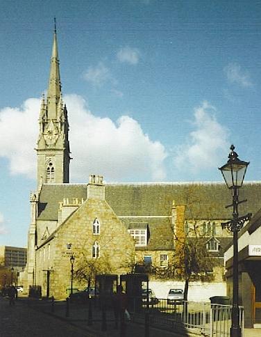 St Mary's Cathedral, Aberdeen.